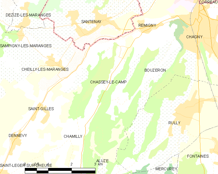 Map of French municipality